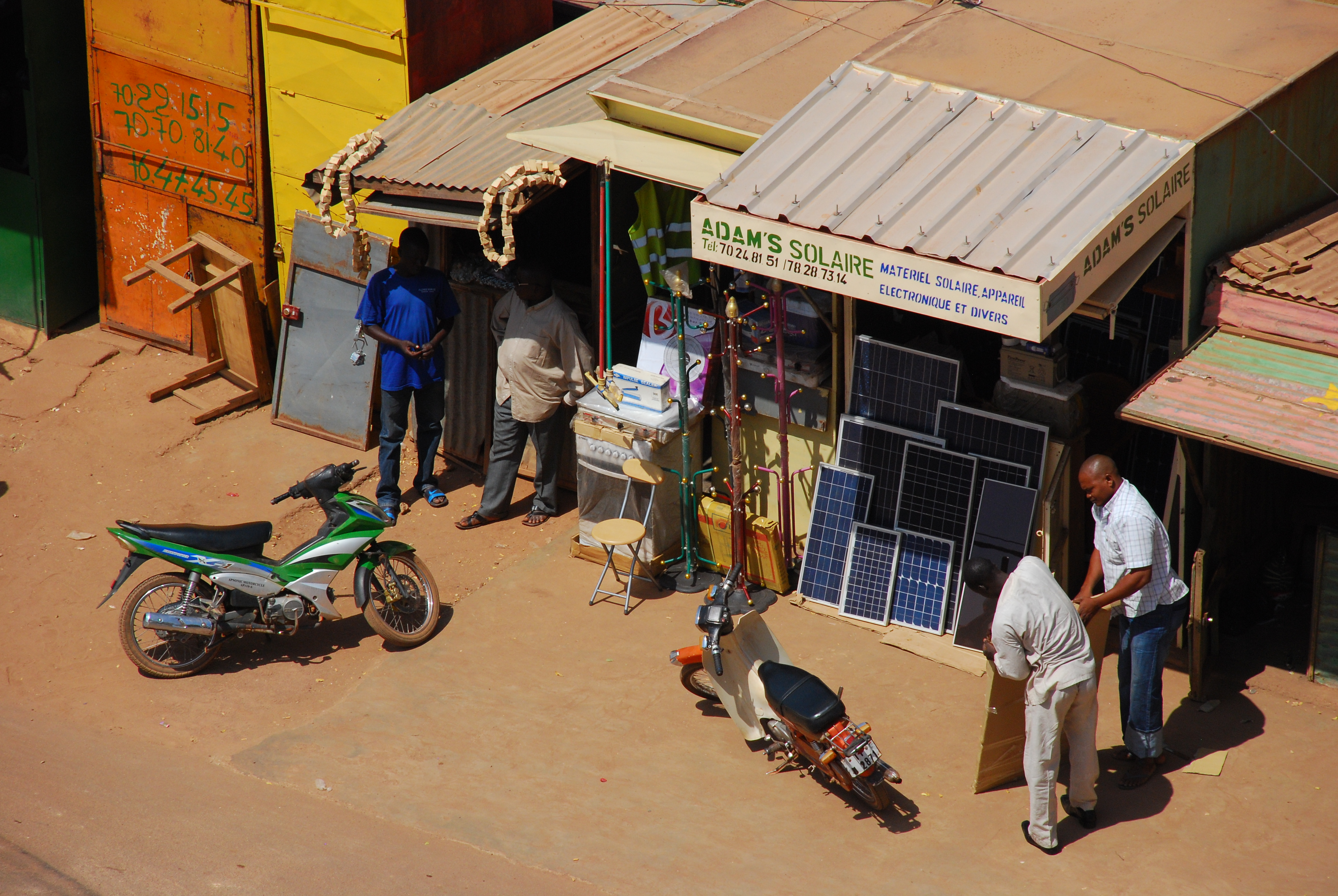 Shop for solar cell panels, Ouagadougou, Burkina Faso, West Africa (from roof of the Amiso hotel)